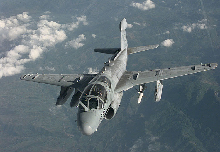 A Grumman EA-6B Prowler flying over green mountainous terrain